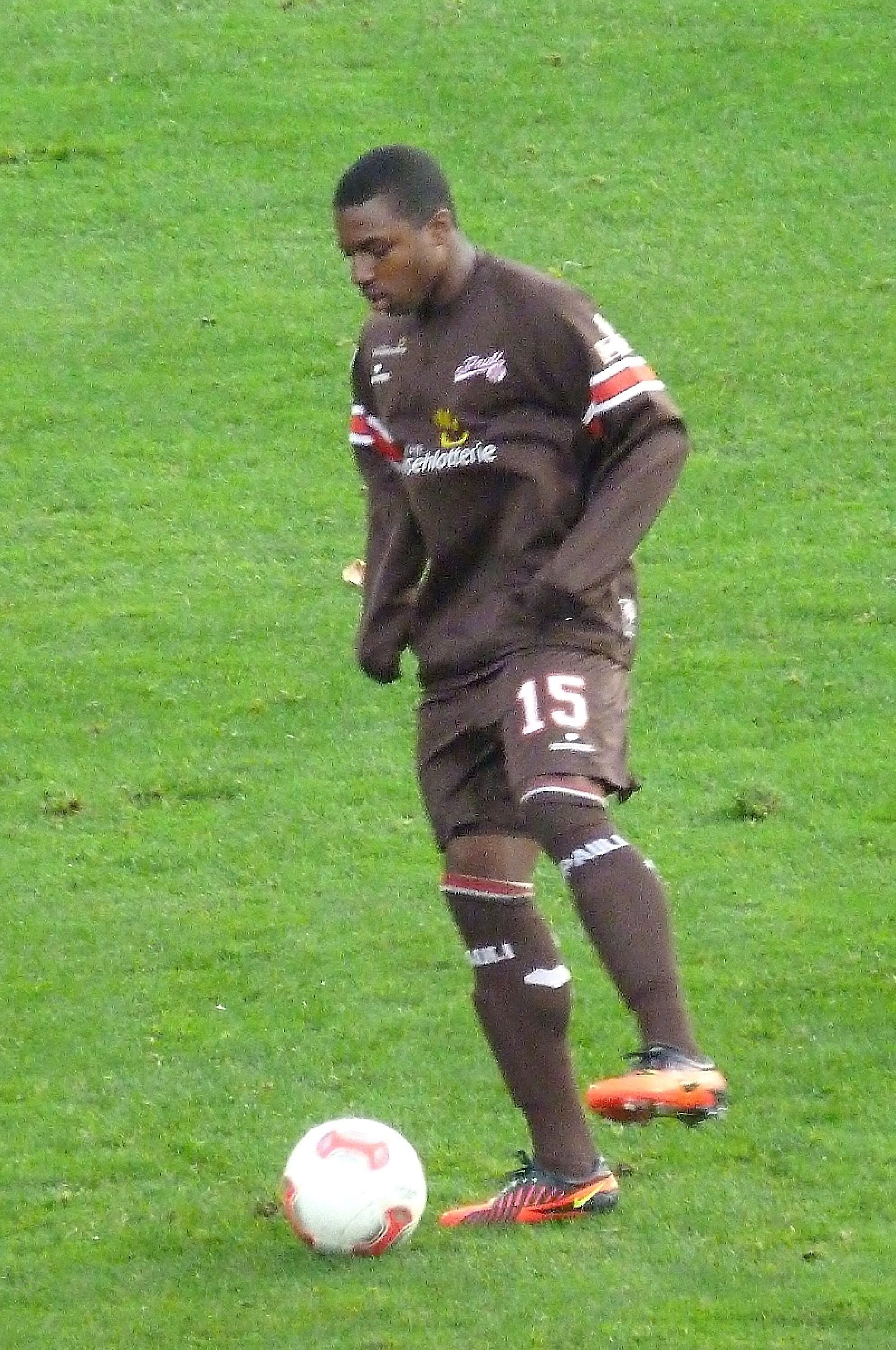 Joseph-Claude Gyau as Player from the FC St. Pauli